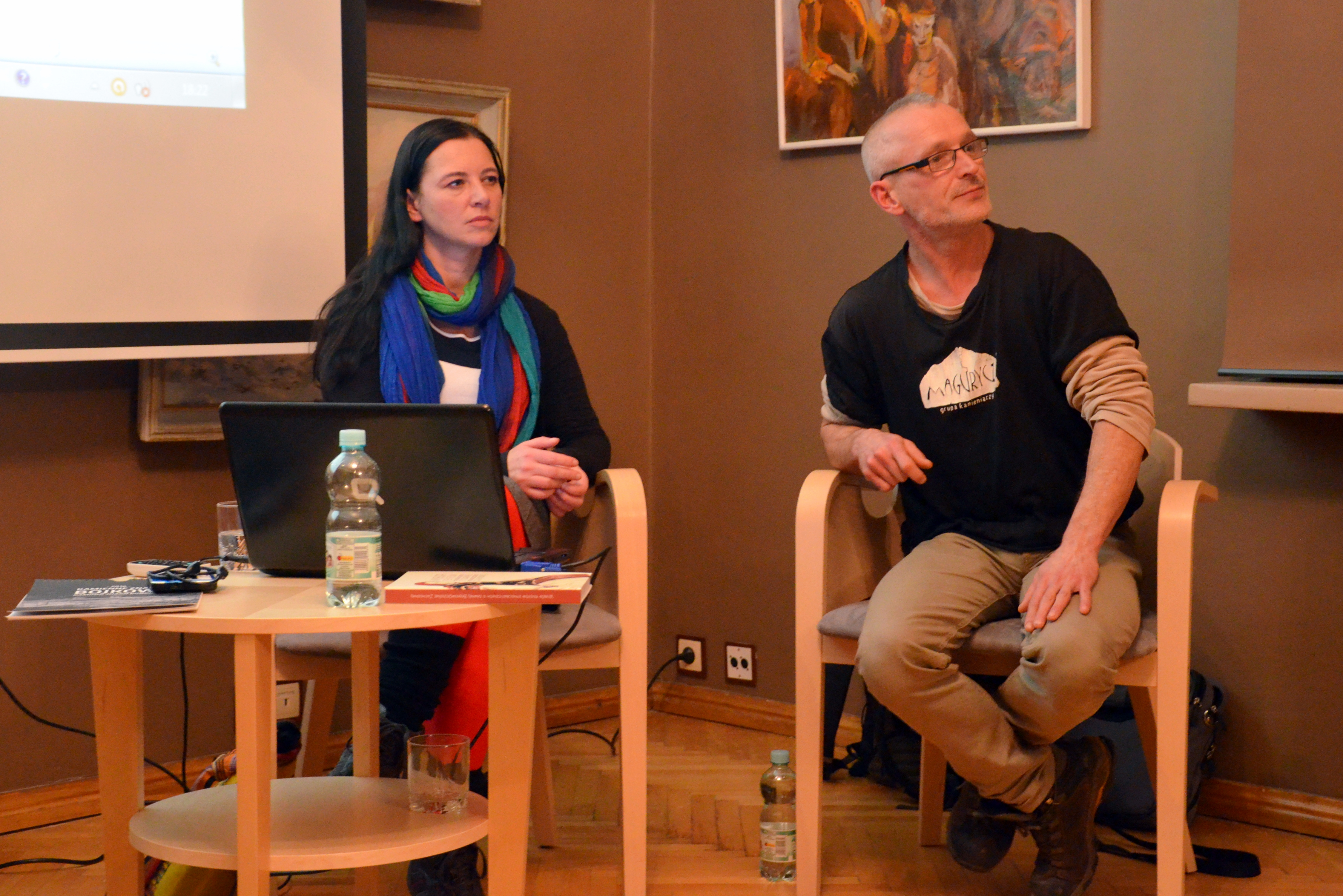 Ethnographische Skizzen über die Bojken in den Karpaten in der Stadtbibliothek Sanok